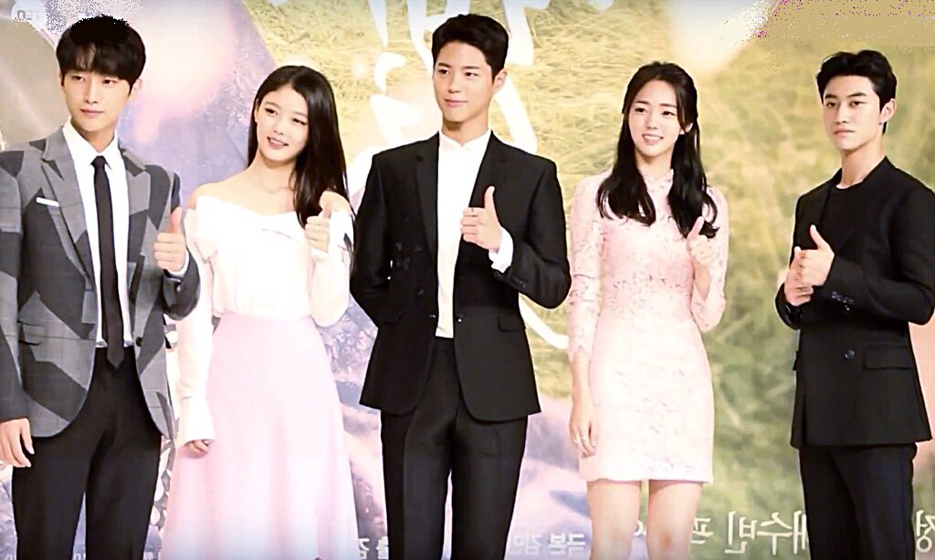 Cast of Love in the Moonlight, August 2016